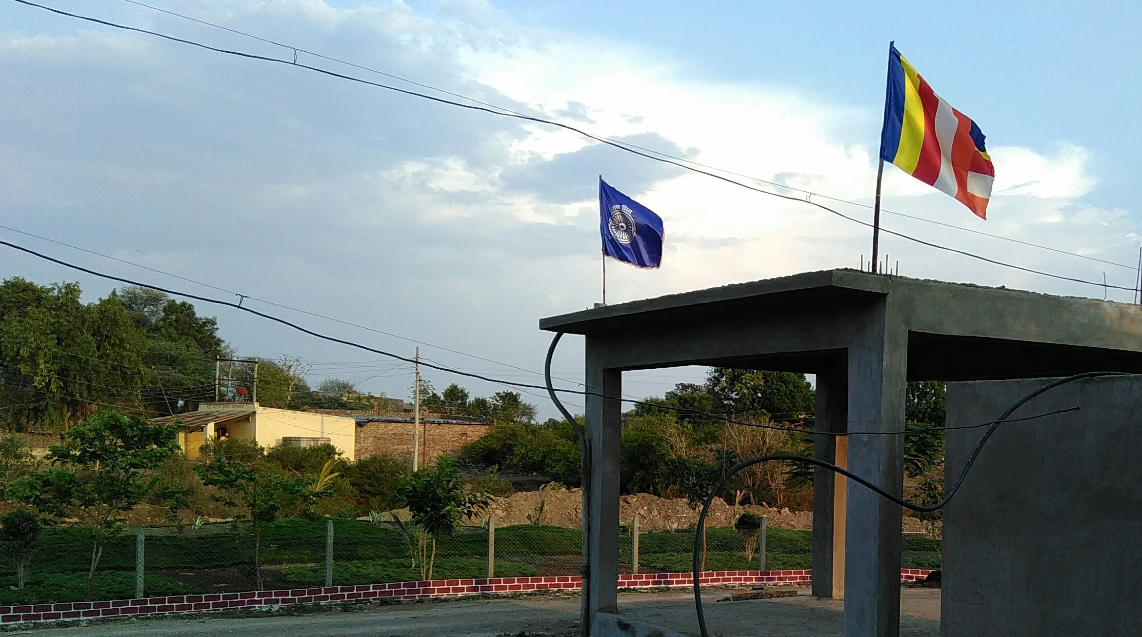 Two Buddhist flags in Khasgaon village of Jalna dist, Maharashtra, India